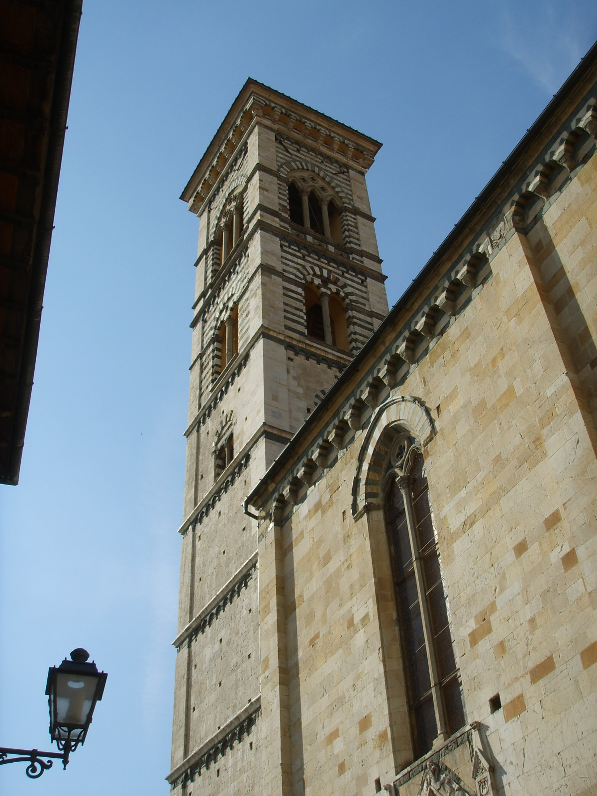 Belltower of the Duomo, Prato, Italy